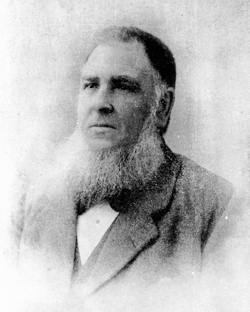 Parliamentarian John McMaster, Brisbane, ca. 1895. Born on the island of Islay, Scotland, in 1830. Died in Brisbane on 29 February 1942. In 1854 he came to Queensland as a farmer. Around 1870 he became a storekeeper at Fortitude Valley, in Brisbane, and was elected an Alderman of that ward two years later. He subsequently represented Fortitude Valley in the Municipal Council for many years. He was elected Mayor of Brisbane for the first time in February 1884 and re-elected in 1890, 1893 and 1897. During the financial crisis of 1893 he proved his ability when the municipality found itself without funds to continue urgent works. McMaster raised 225,000 pounds with debentures. He was elected to the Legislative Assembly in September 1885. He supported the construction of the railway from Roma Street through the city and to Fortitude Valley. (Description supplied with photograph).